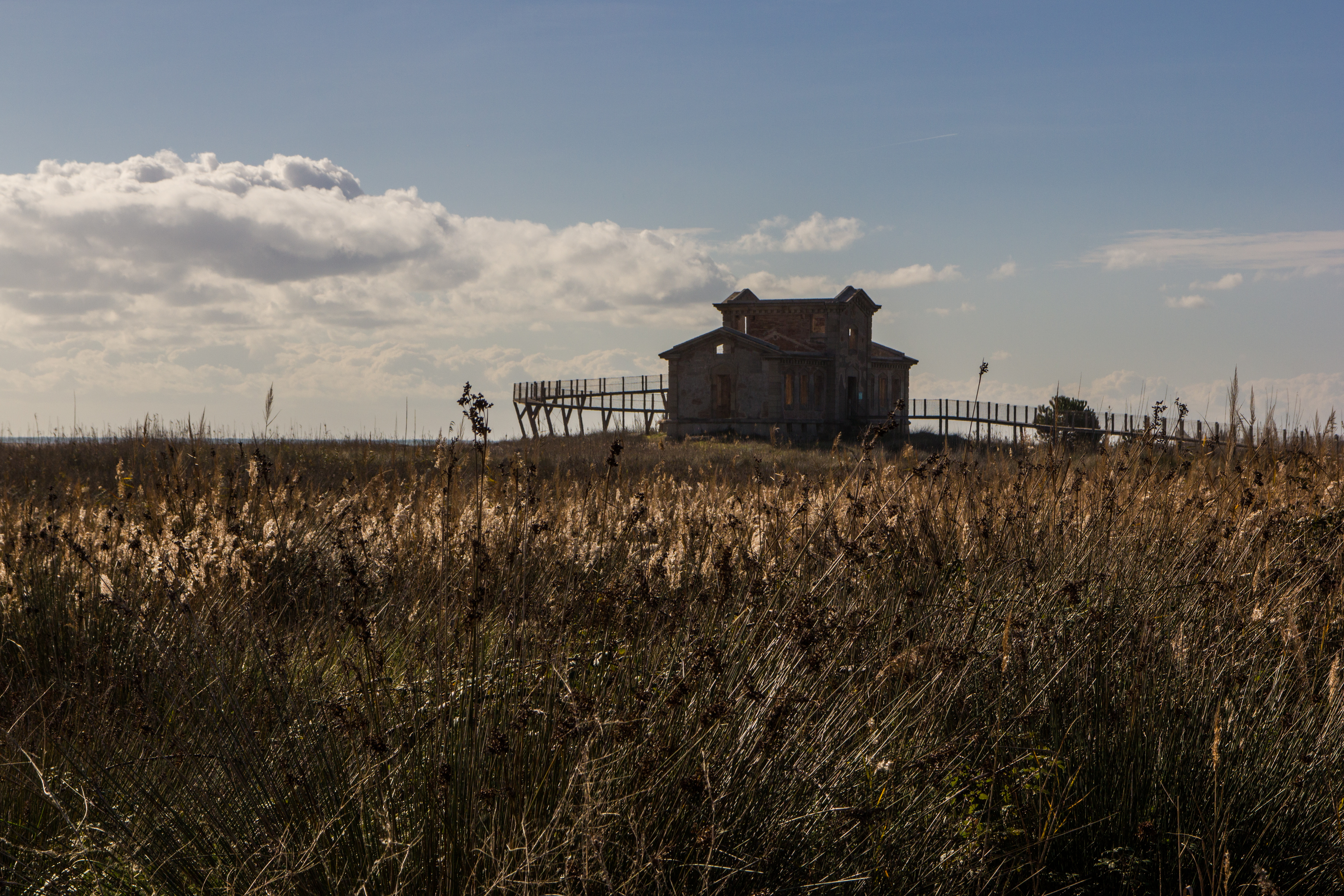 View of the Semàfor